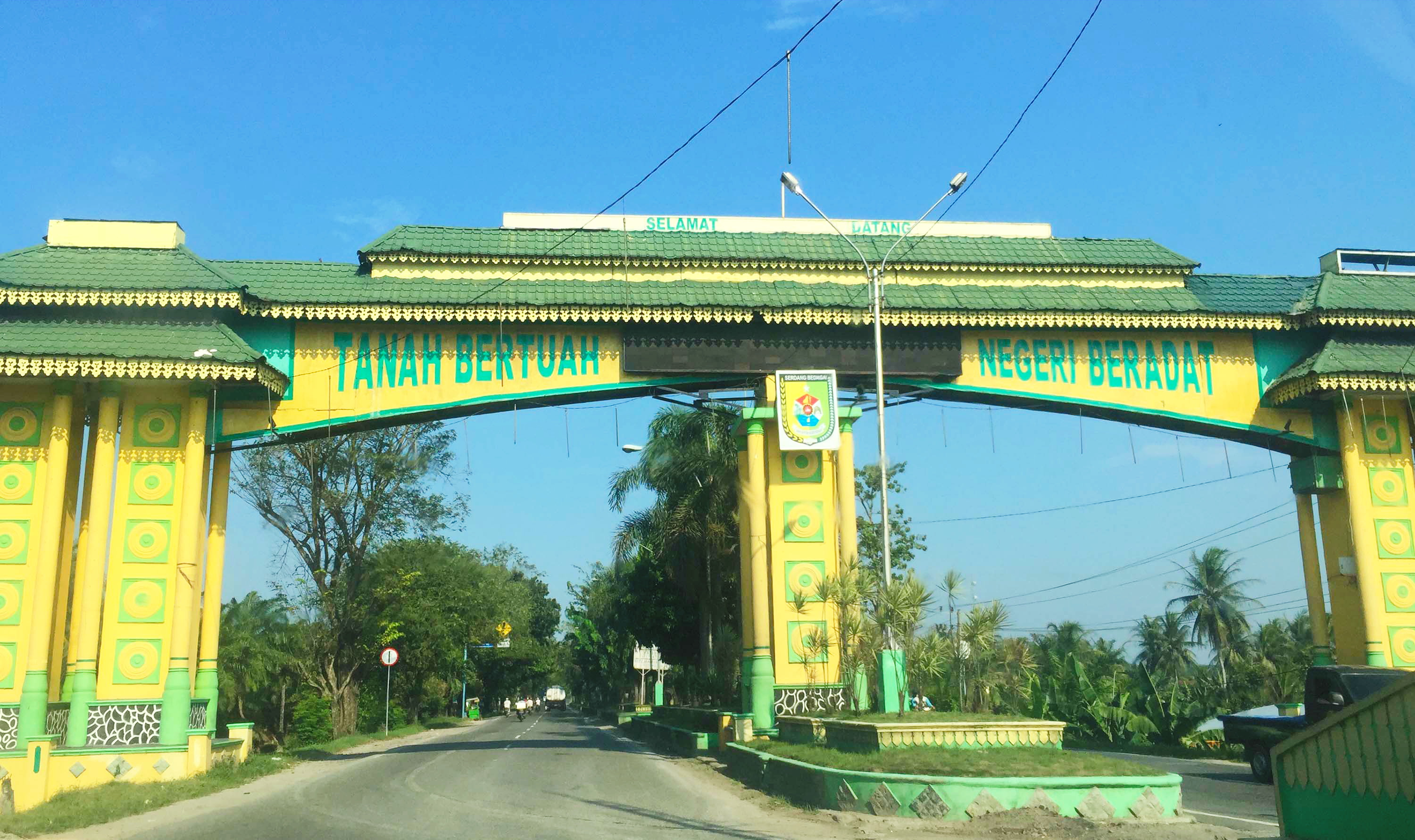 Welcome gate to Serdang Bedagai, Sumatra Utara (Sergai-Deli Serdang)